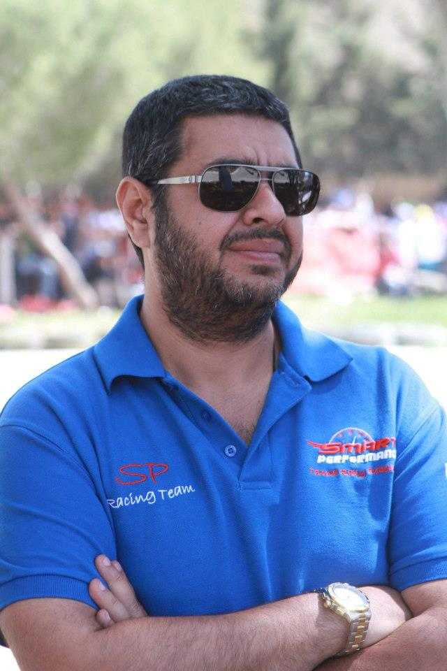 Alaa Rasheed - The Jordanian rally driver